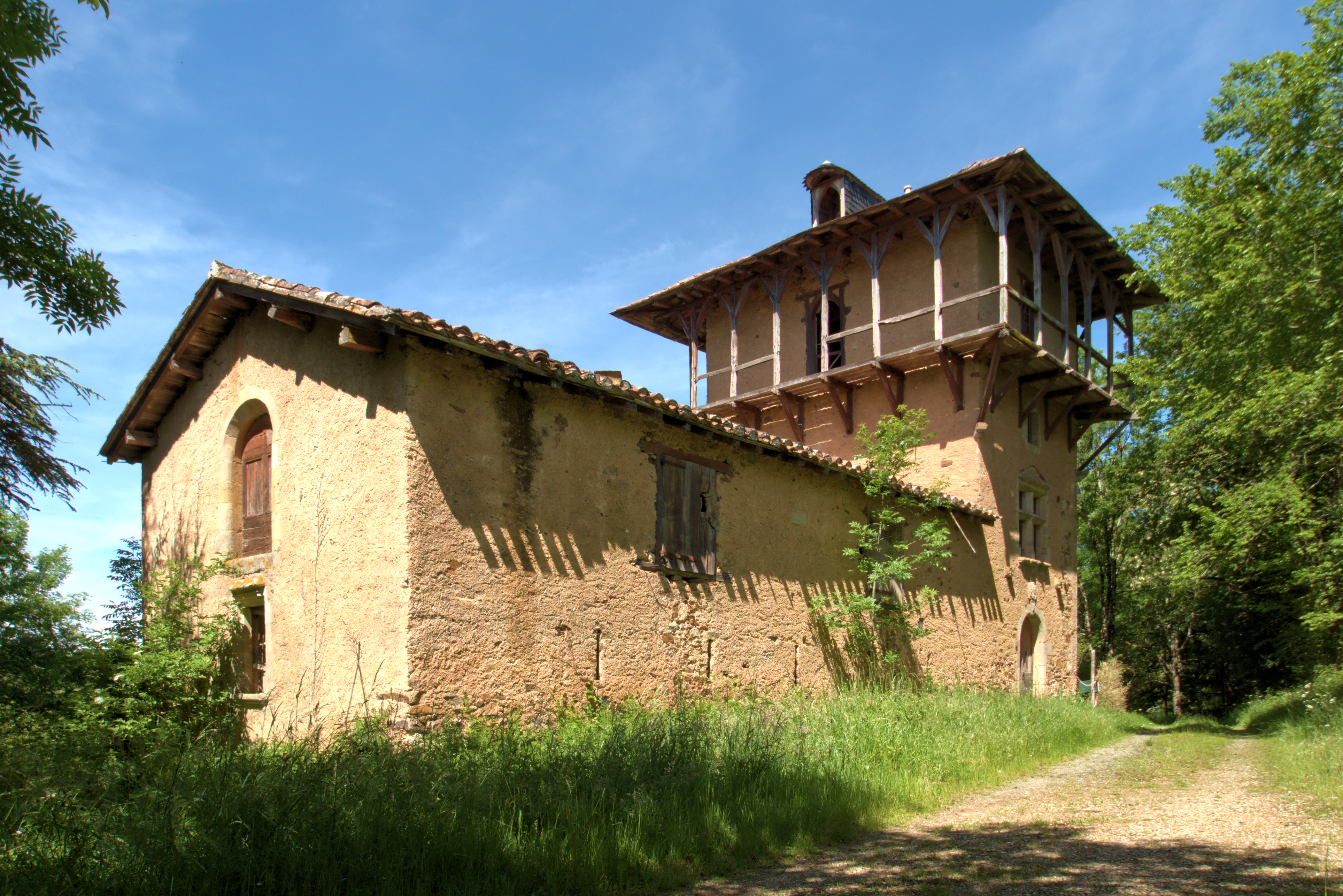 Belvedere of the castle of Castelfranc in Montredon-Labessonnié.